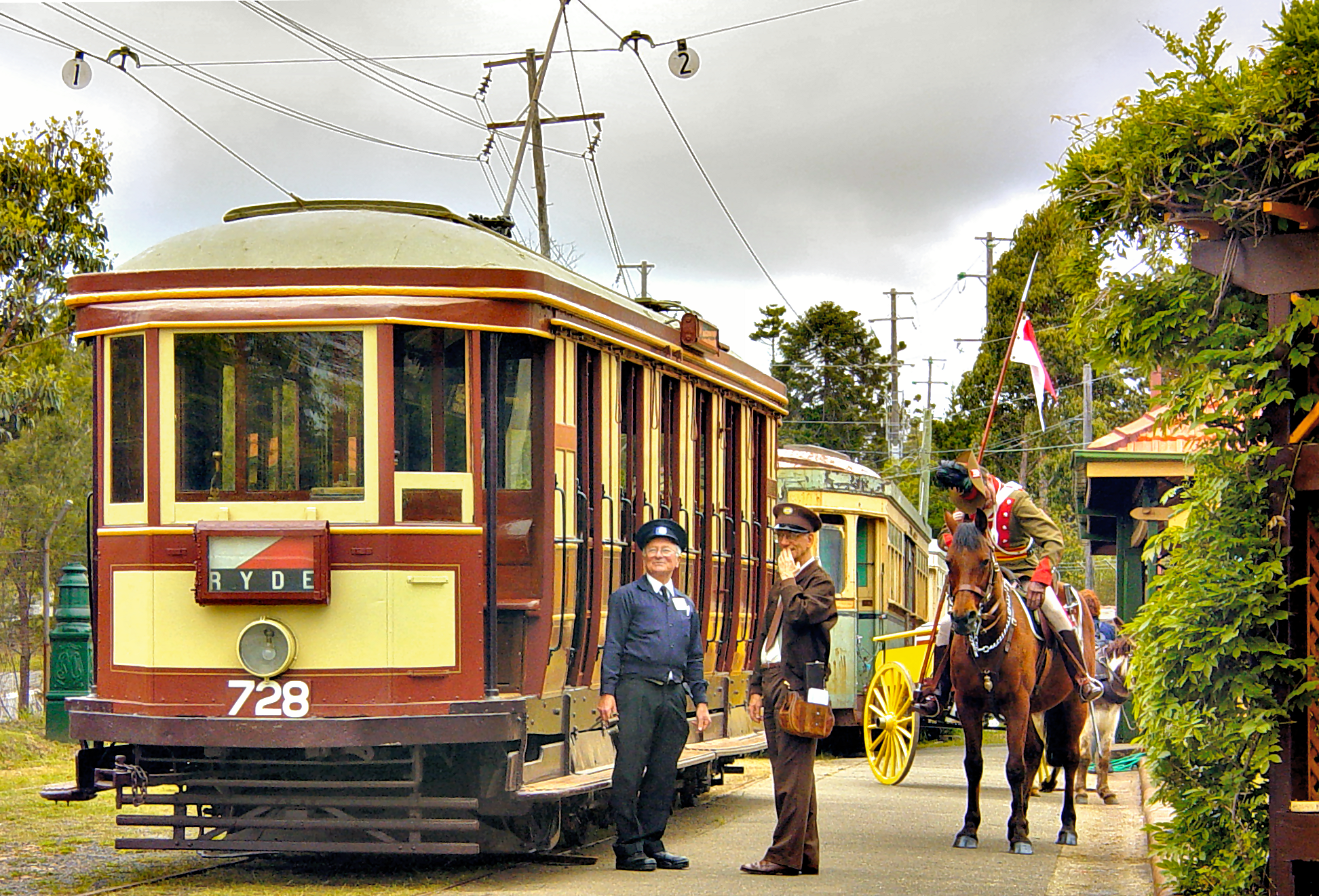 A tram at the Sydney Tramway Museum.